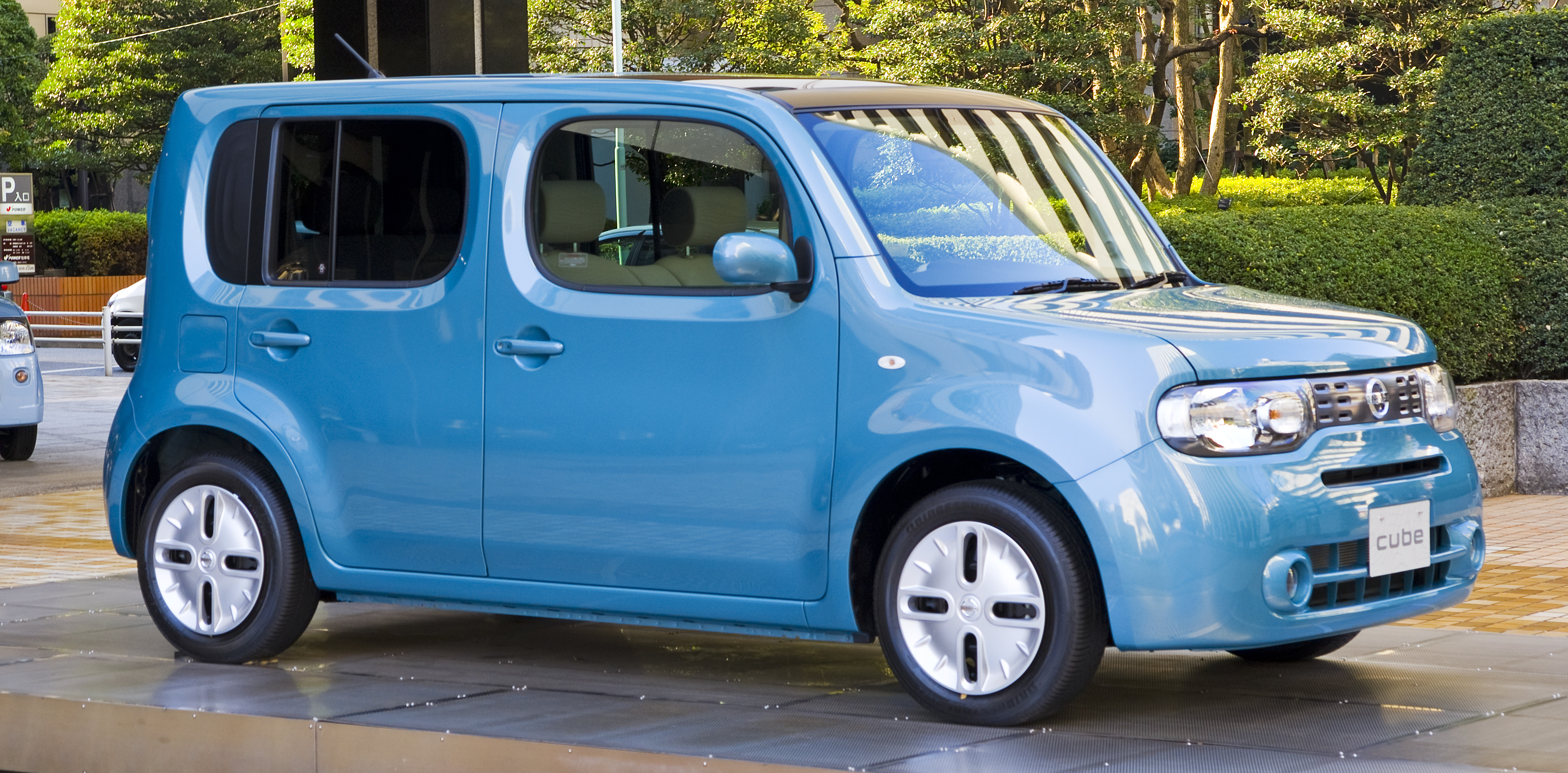 2009 3rd genaration Nissan Cube photographed in Nissan Gallery (Chuo, Tokyo)